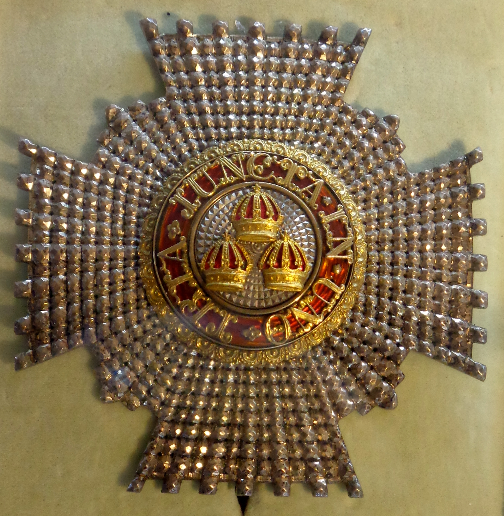 Order of the Bath, star of Knight Commander, civil division, after 1950. United Kingdom. The exhibition of the Tallinn Museum of Orders of Knighthood, Estonia.